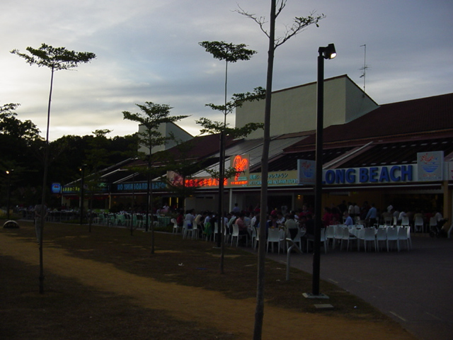 Long beach restaurant in Singapore